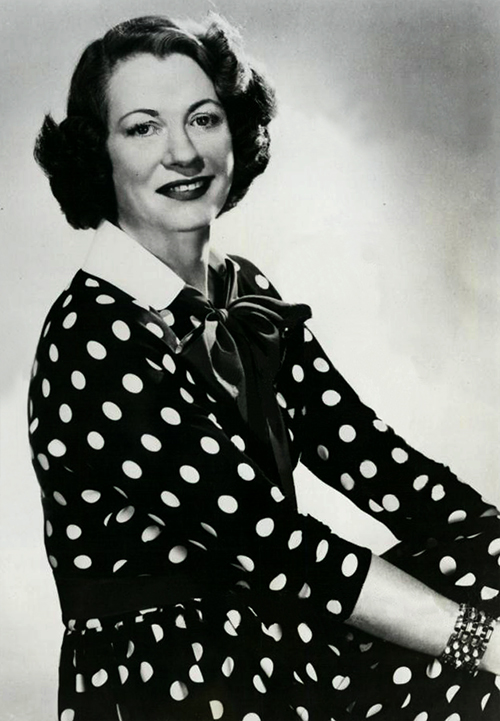 A promotional photograph of Lucille Wall from the CBS television series Valiant Lady in 1952.